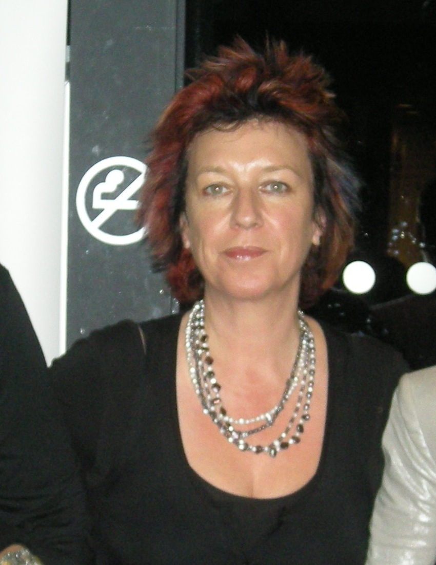 Jane Wenham-Jones at Guildford Book Club October 2012